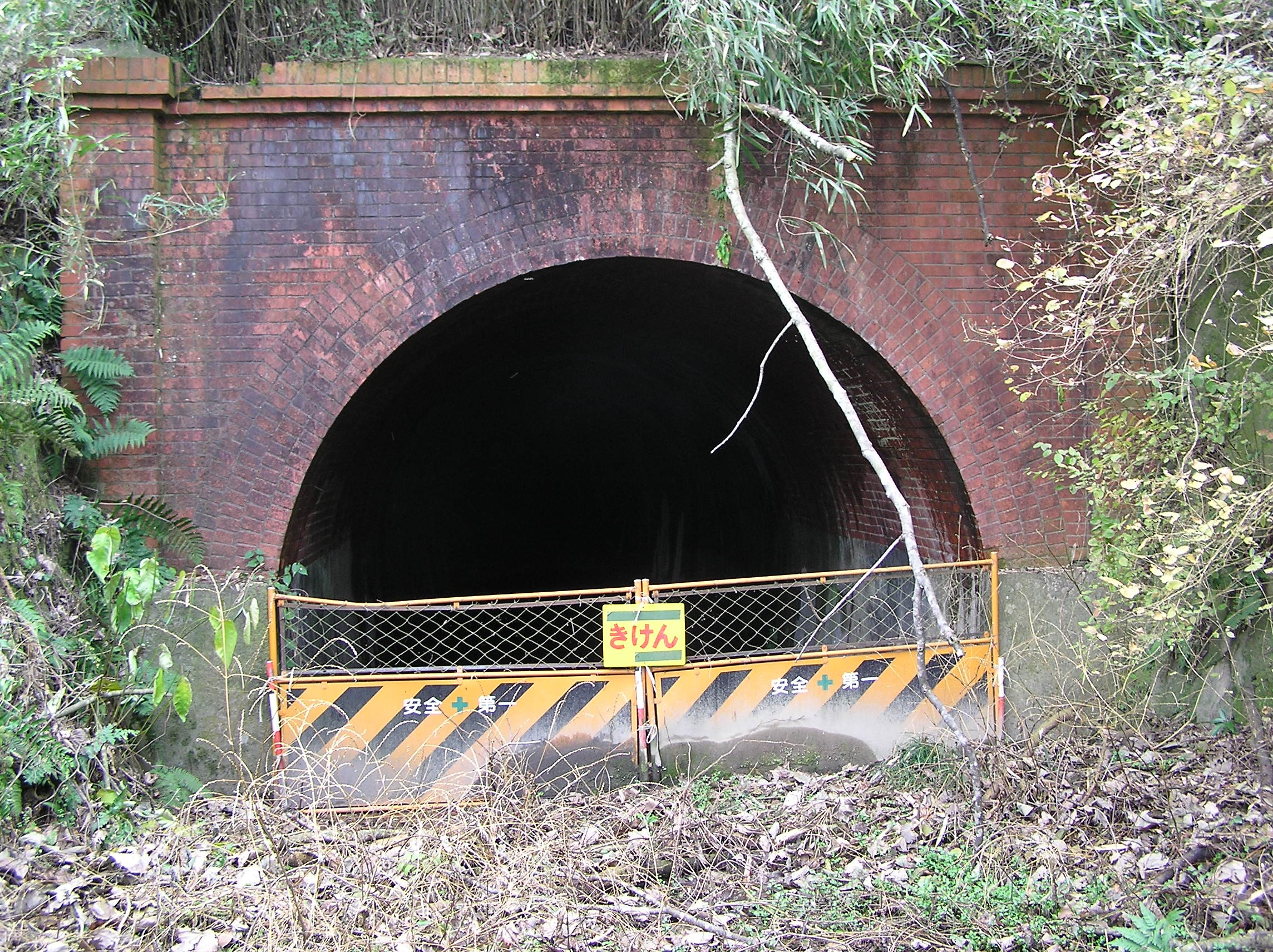 Saguriya tunnel (Horinouchi railway, Kikugawa city, Shizuoka, Japan)